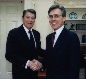 Ronald Reagan and T. Frank Crigler in Oval Office in 1987